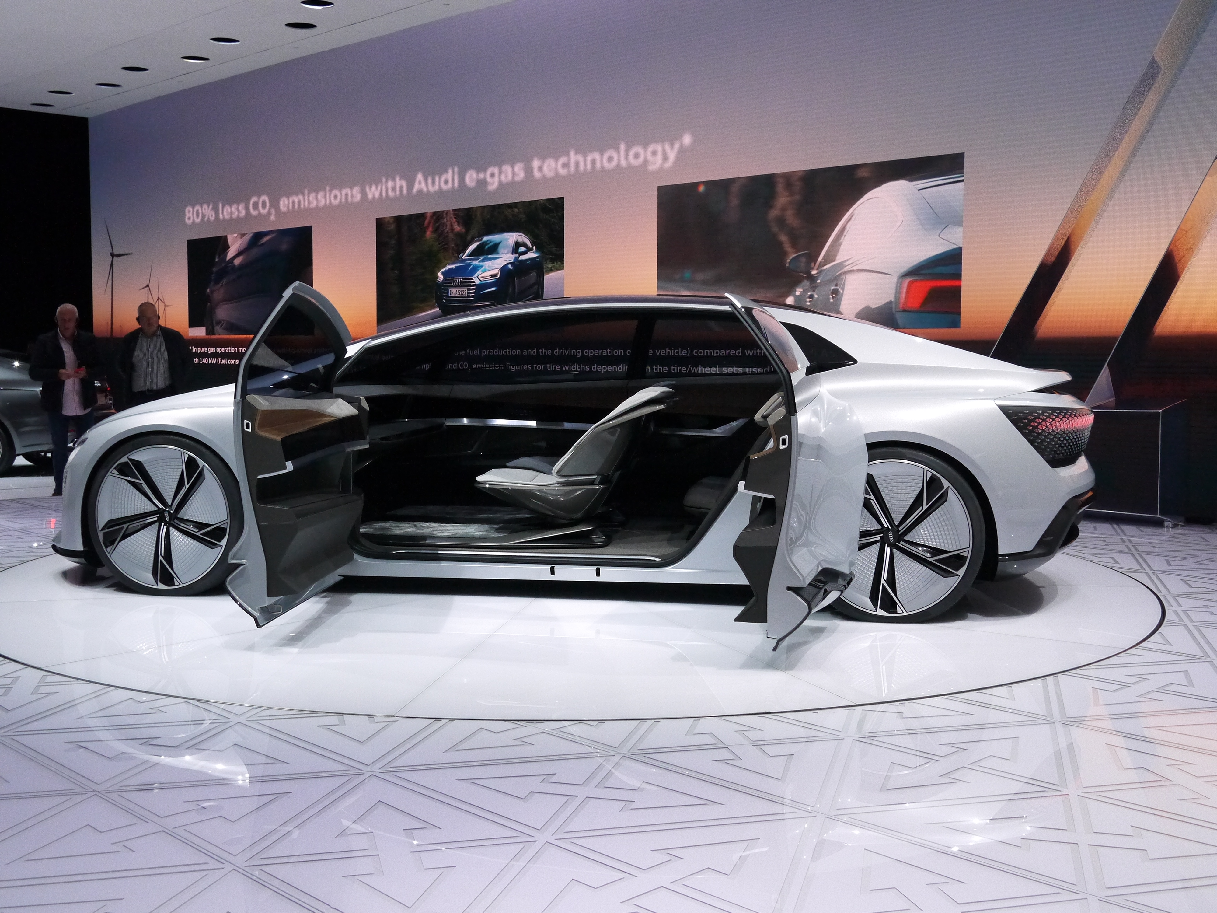 Audi Aicon concept front view at Frankfurt Motor Show 2017.